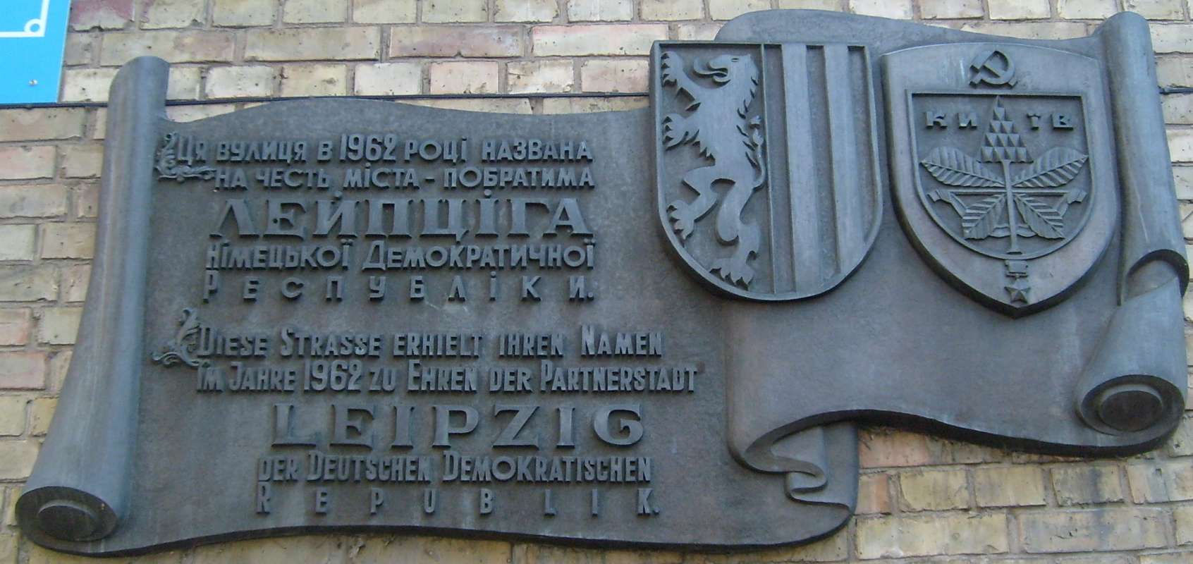 Plaque at 2/37 Leipzig Street , Kiev, Ukraine by architect K. A. Sidorov